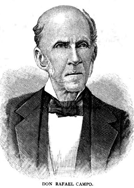 Former salvadorean president, Rafael Campo